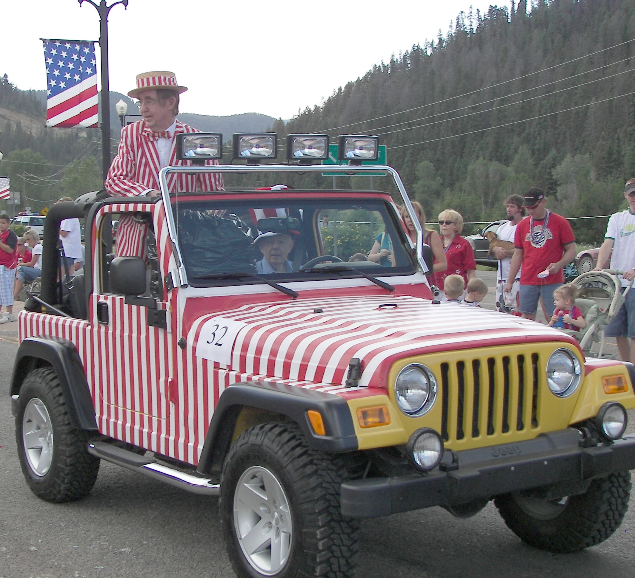 Jerry Haynes (Mr. Peppermint) in the fourth of July parade at Red River, NM